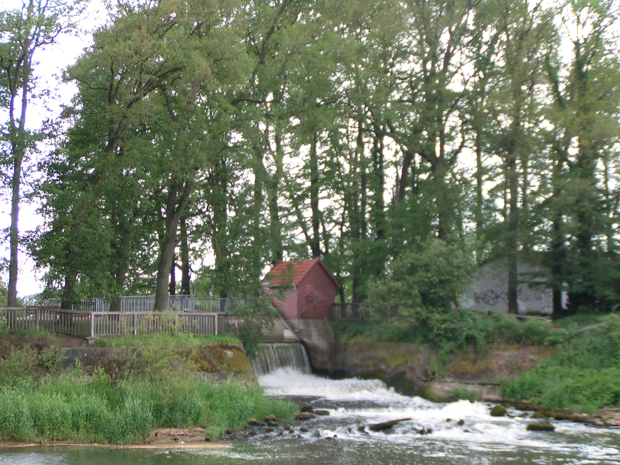 Former waterfall behind the "Überfallhase" near Quakenbrück